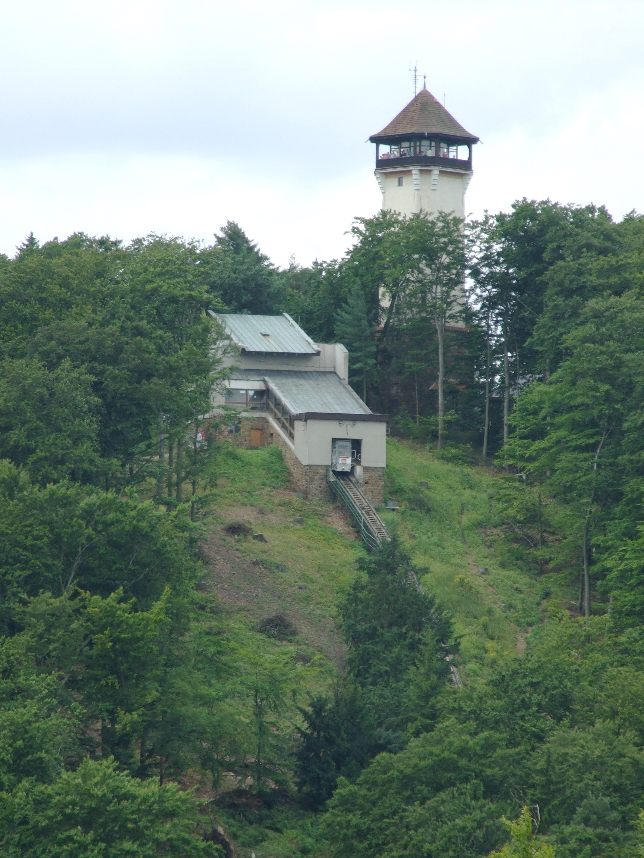 Top station of Diana funicular in Karlovy Vary and lookout towerhelp